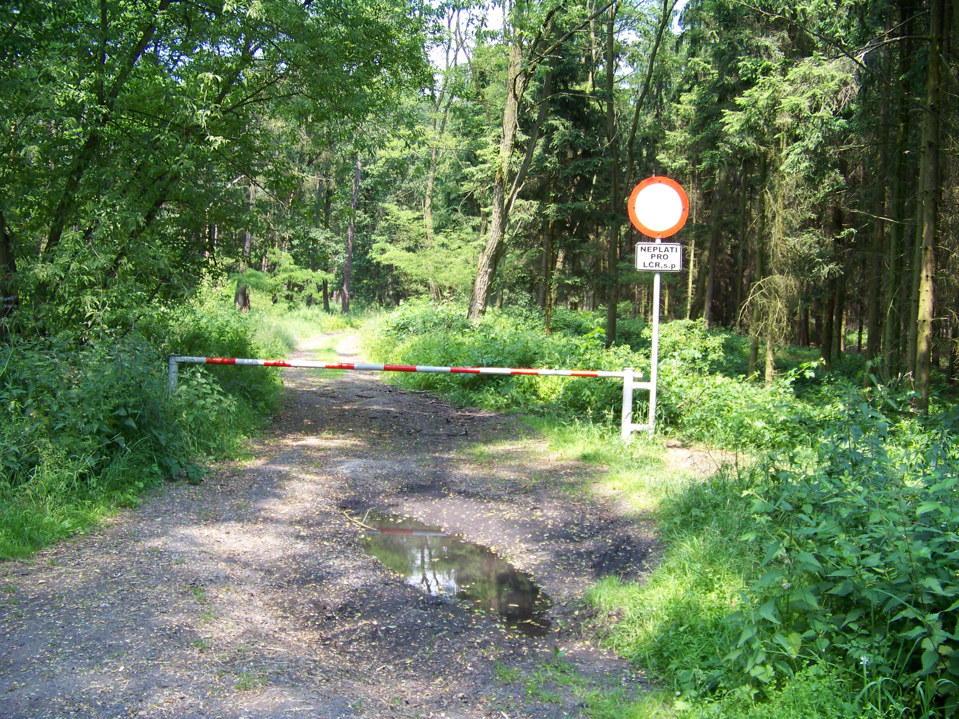 Jeviněves, Mělník District,Central Bohemian Region, the Czech Republic.